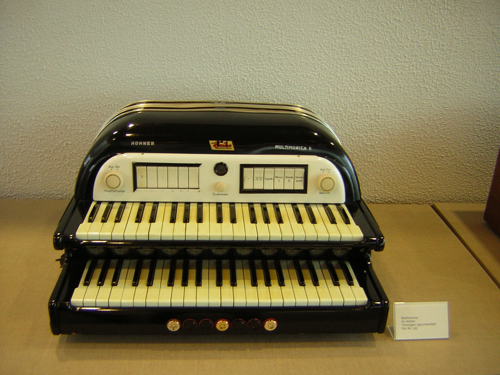 Hohner Multimonica II (released in 1940, manufactured in 1951) designed by Harald Bode, marketed in Europe from 1940. upper key: electronic monophonic sawtooth generator lower key: wind-blown reed harmonium Musikinstrumentenmuseum Berlin